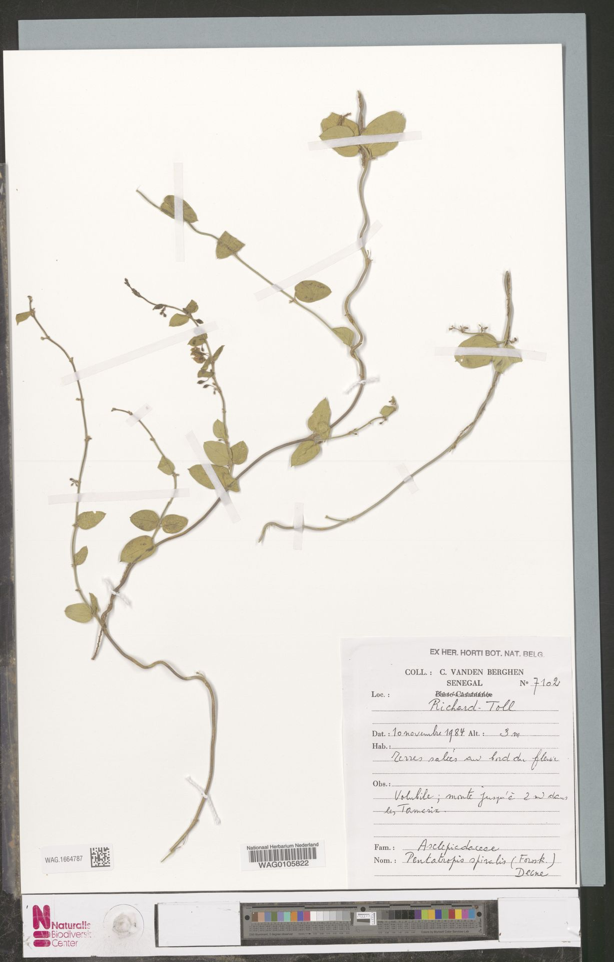 Blyttia spiralis id WAG.1664787_0211793396 collected by Richard Toll in Senegal in 1984 (identified on specimen as Pentatropis spiralis)